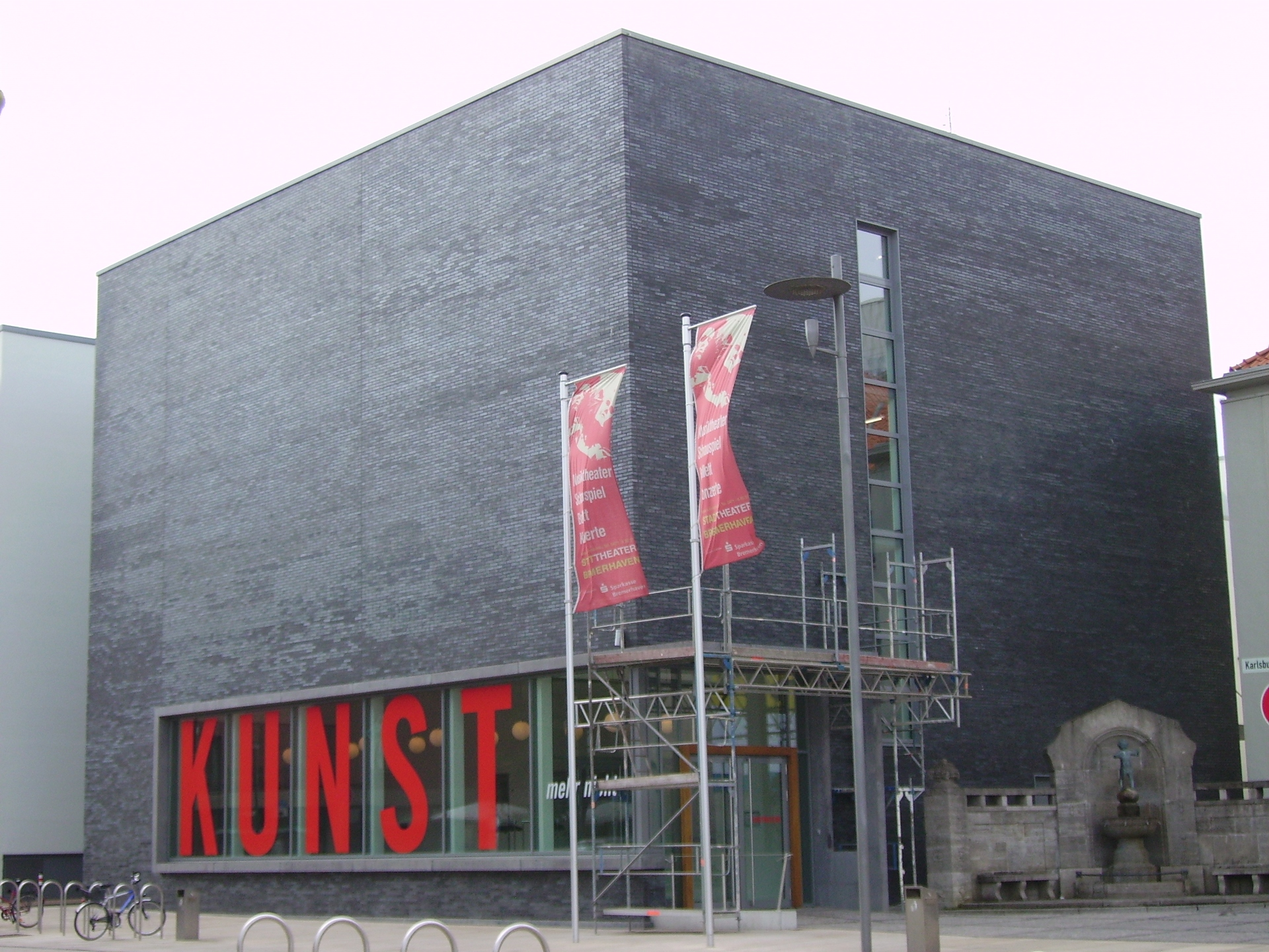 The Museum of Arts in Bremerhaven